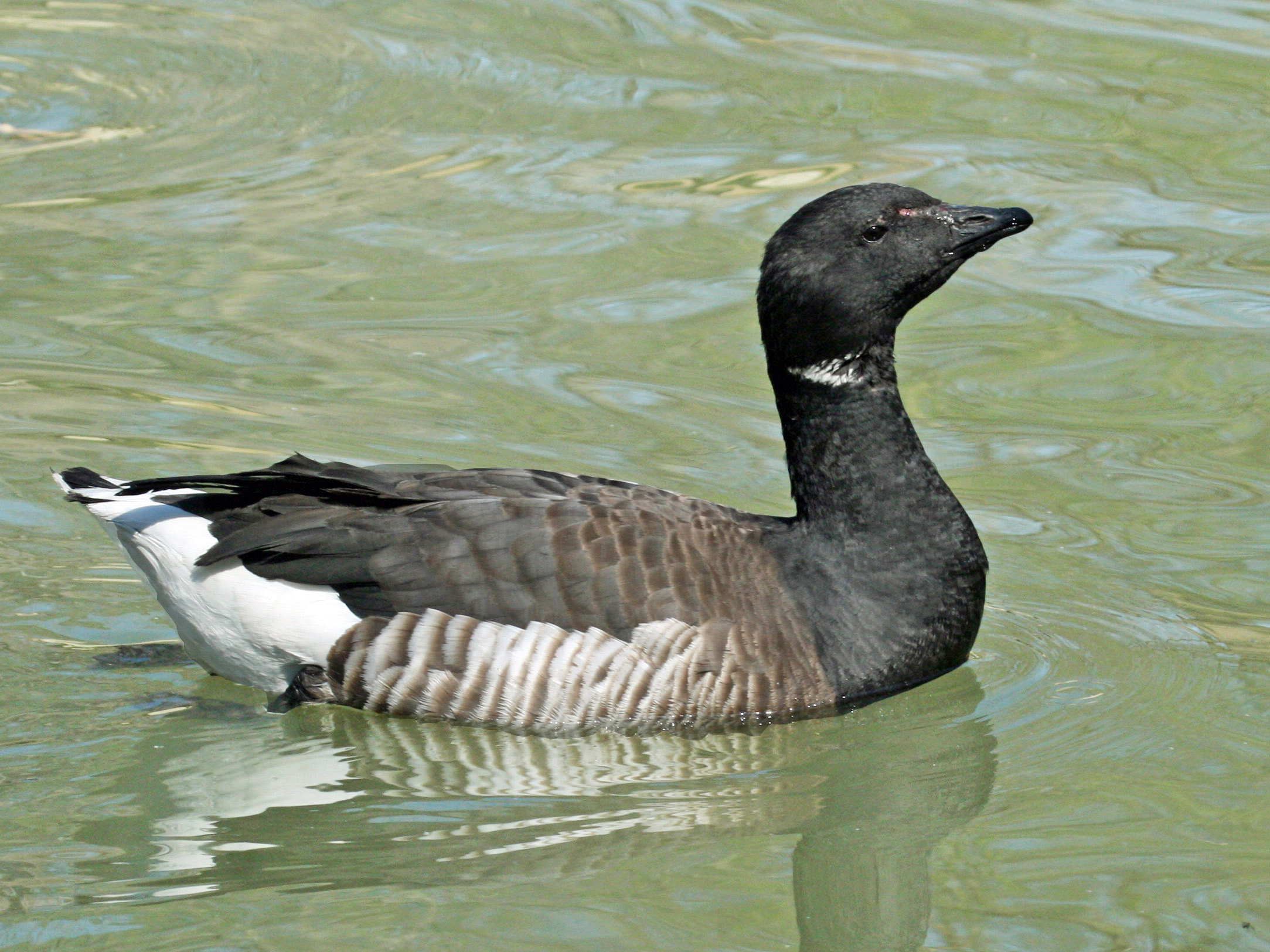 Brant (Branta bernicla) at Sylvan Heights Waterfowl Park in Scotland Neck, North Carolina.